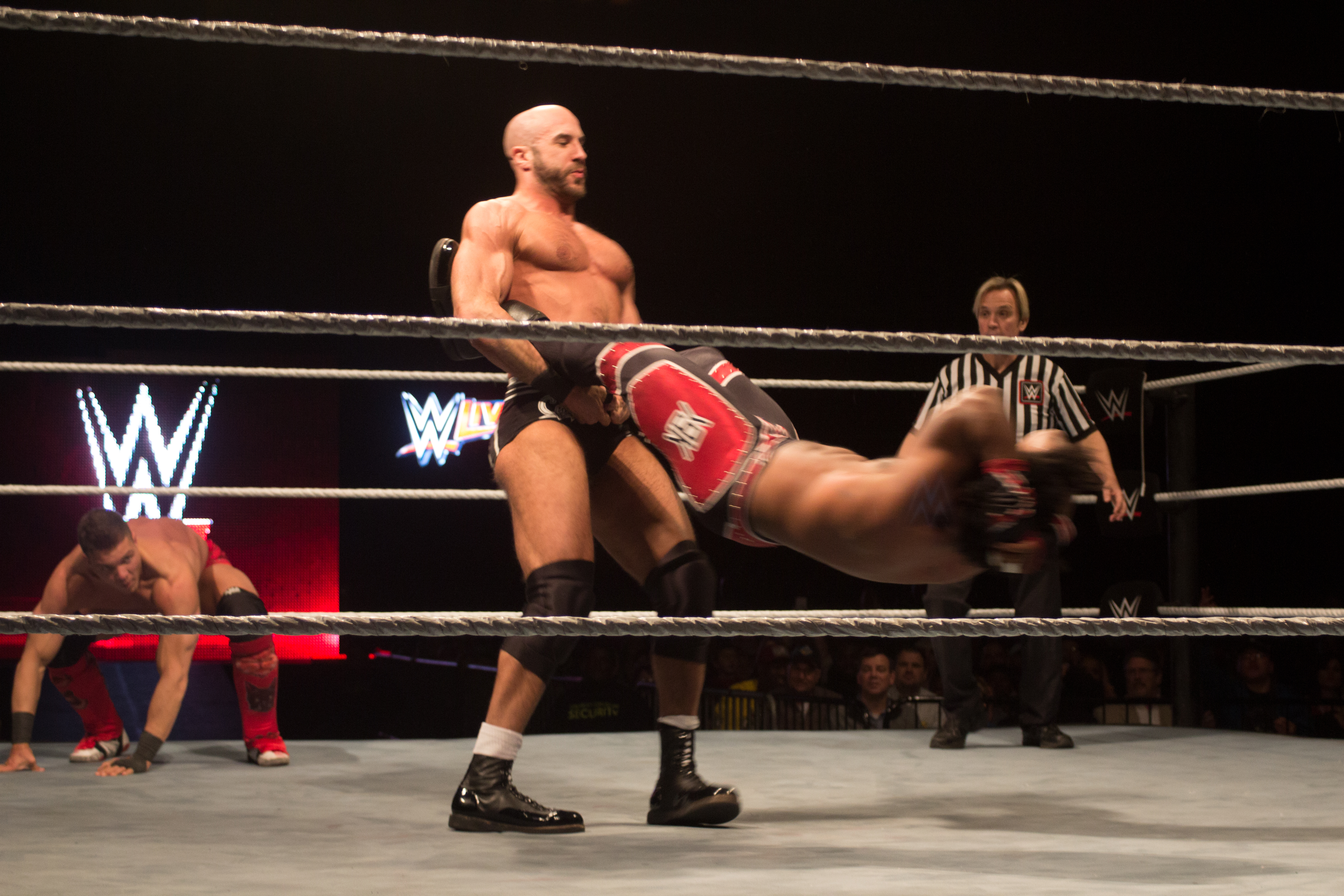 WWE House Show - Garrett Coliseum - 1/10/15